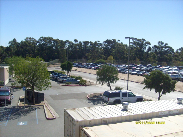 dsf